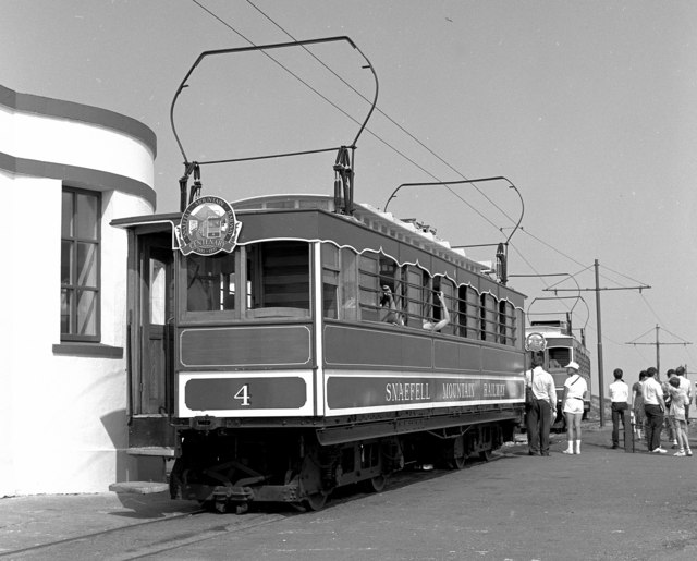 Snaefell Summit station Car No 4 is seen with a special headboard, as 1995 was the Centenary Year for the Snaefell line